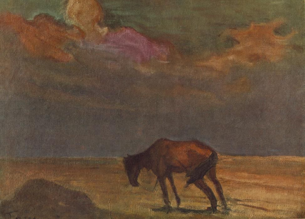 Gloomy Hungarian Fate